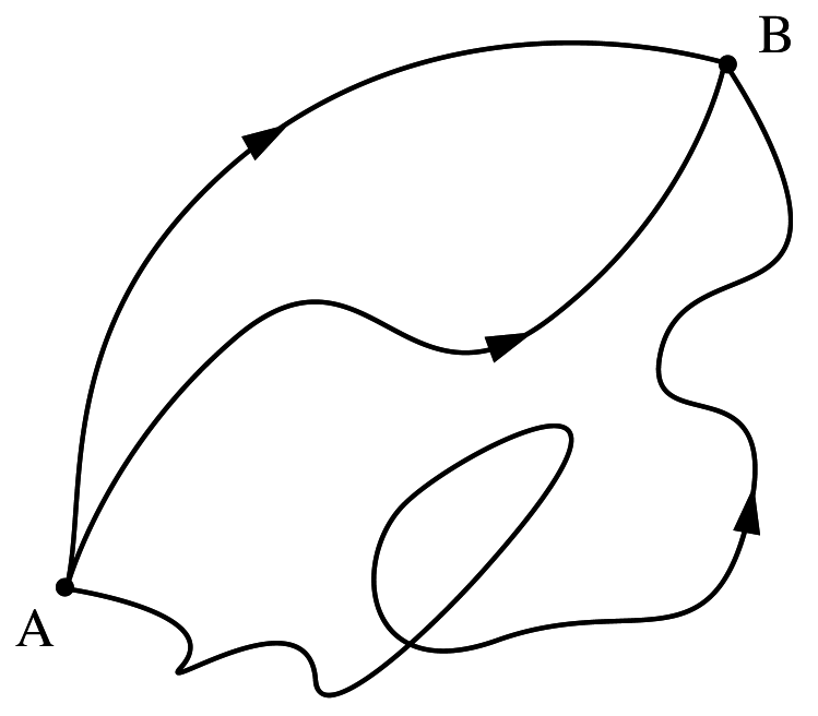 These are just three of the paths included in the path integral used to calculate the quantum amplitude for a particle moving from point A to point B.